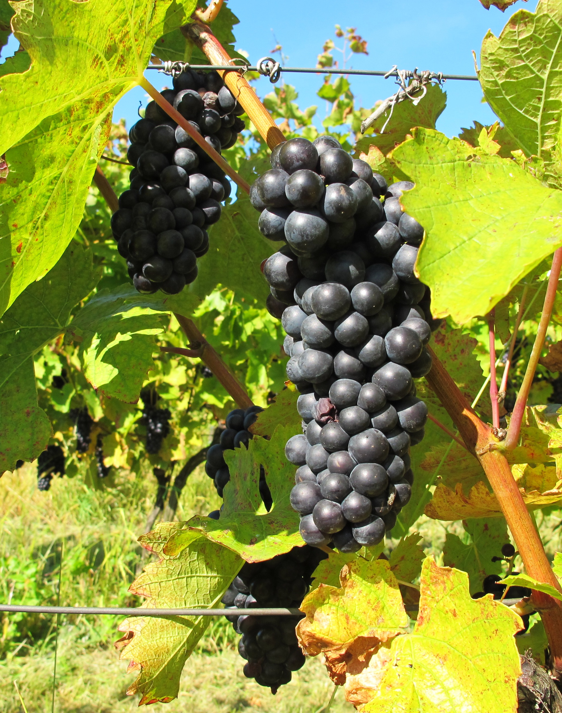 Grapes between Klentnice and Pavlov, Břeclav District